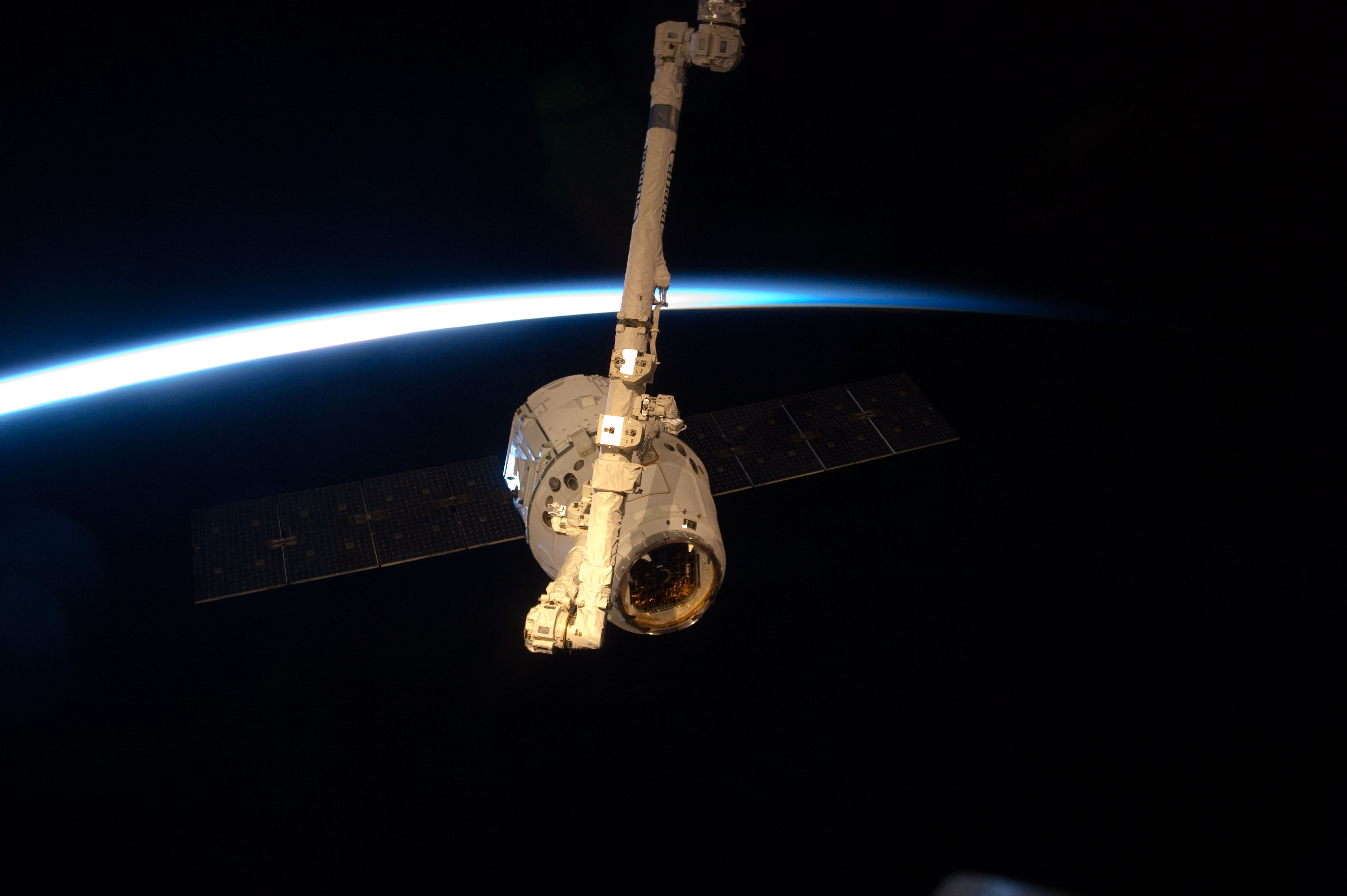 With darkness, Earth's horizon and thin line of atmosphere forming a backdrop, the SpaceX Dragon commercial cargo craft is grappled by the Canadarm2 robotic arm at the International Space Station. Expedition 31 Flight Engineers Don Pettit and Andre Kuipers grappled Dragon at 9:56 a.m. (EDT) and used the robotic arm to berth Dragon to the Earth-facing side of the station's Harmony node at 12:02 p.m. May 25, 2012. Dragon became the first commercially developed space vehicle to be launched to the station to join Russian, European and Japanese resupply craft that service the complex while restoring a U.S. capability to deliver cargo to the orbital laboratory. Dragon is scheduled to spend about a week docked with the station before returning to Earth on May 31 for retrieval.